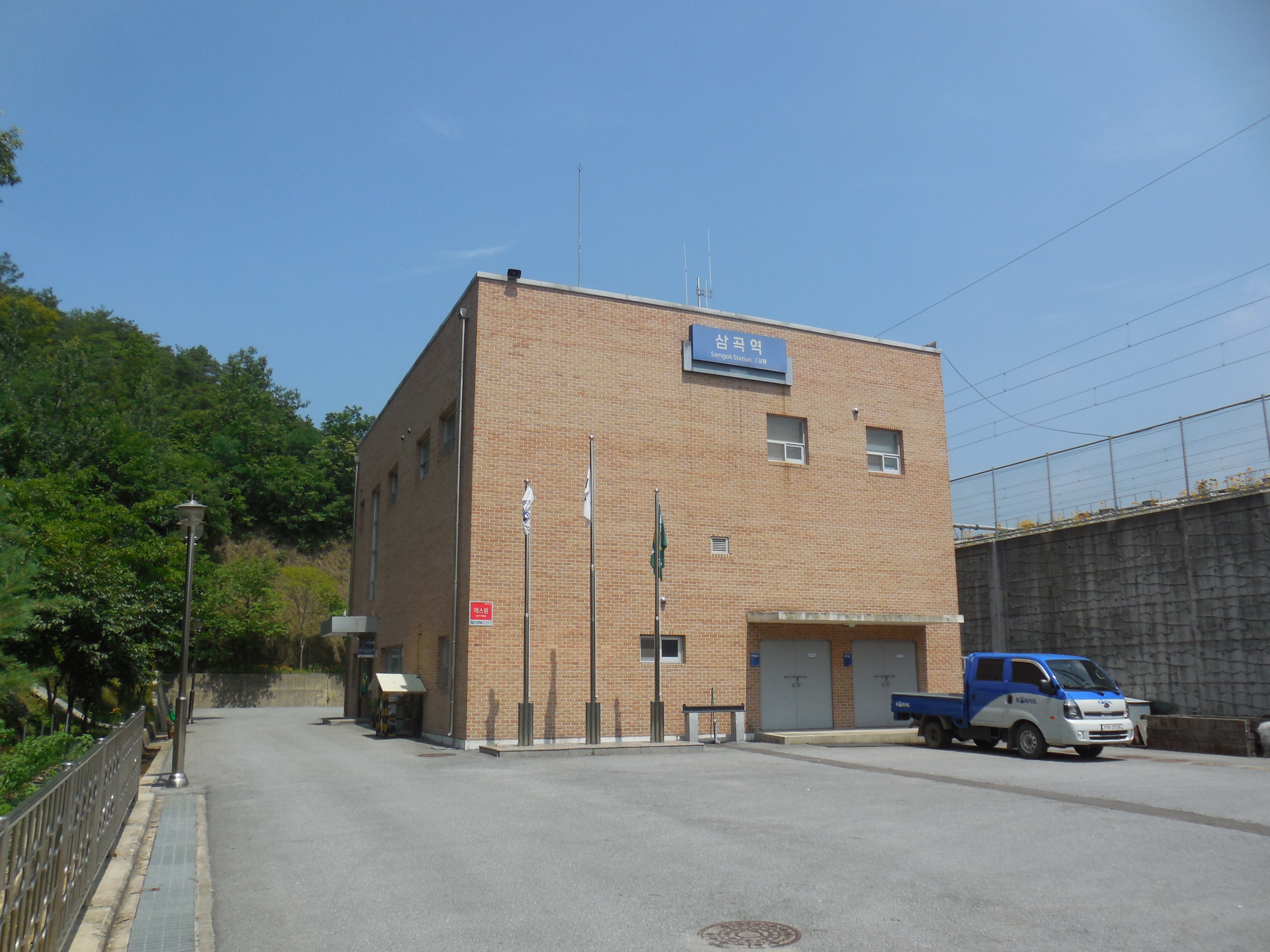 Korail Jungang Line Samgok Station.